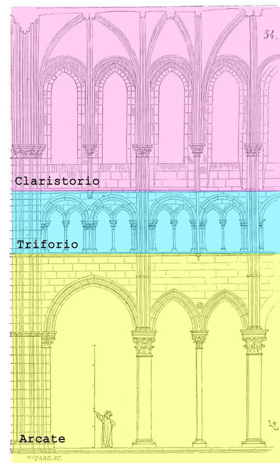 Langres Cathedral: diagram of arcade, triforium and clerestory